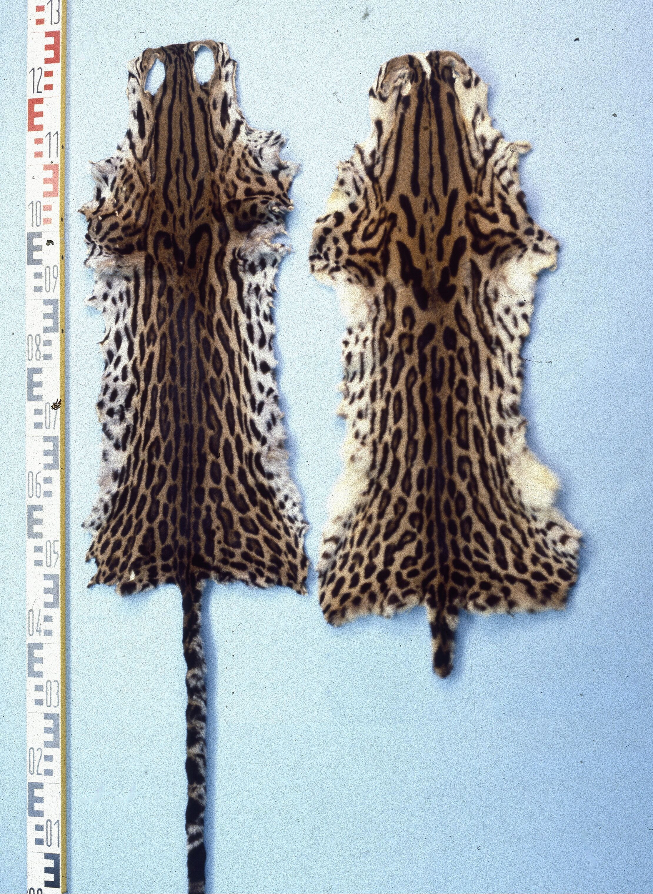 Margay cat fur skins (Leopardus wiedii). Fur skin collection, Bundes-Pelzfachschule, Frankfurt/Main, Germany